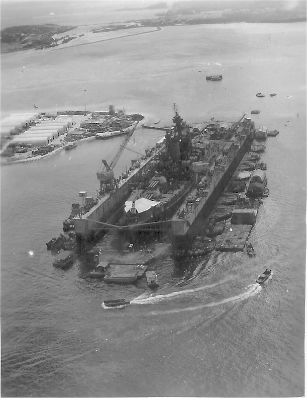 ABSD-3 at Guam, Marianas Islands repairing the USS Pennsylvania (BB-38) Near the end of World War II. Kamikaze attack on USS Pennsylvania at Okinawa on 12 August 1945. The island at upper left was built between the two drydocks, ABSD-3 and ABSD-6. (ABSD-6 is to the left of the picture.) The island was built for supplies and Enlisted and Officers Clubs, movie theater, etc.